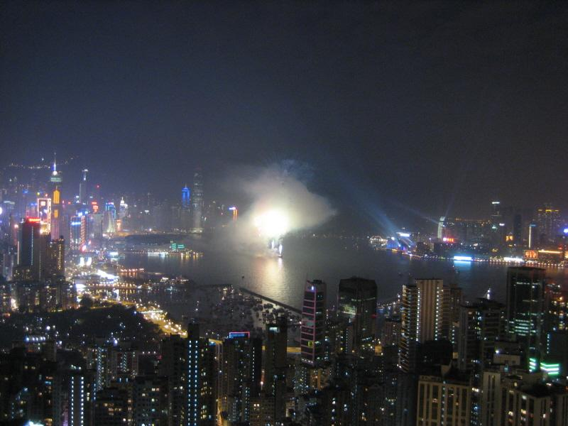 Chinese New Year fireworks at the Hong Kong harbor